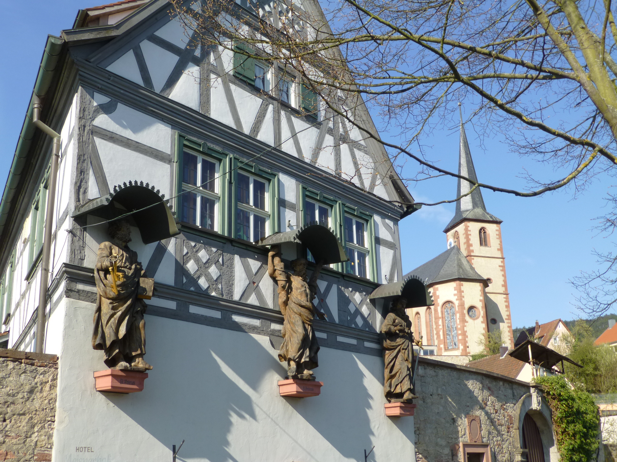 Hotel Meisnerhof, Erlabrunn, Bavaria, old relay since 1672 along the Maine. Three wood saints statues, St. Andreas church.